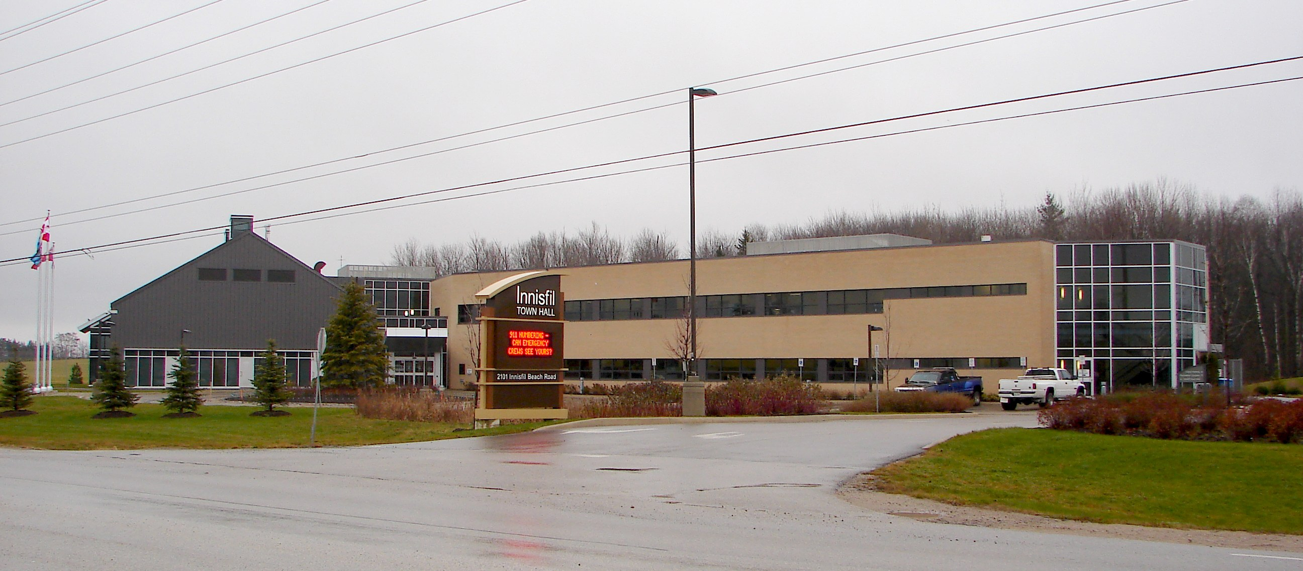 Town hall of Innisfil in Barclay, Ontario, Canada